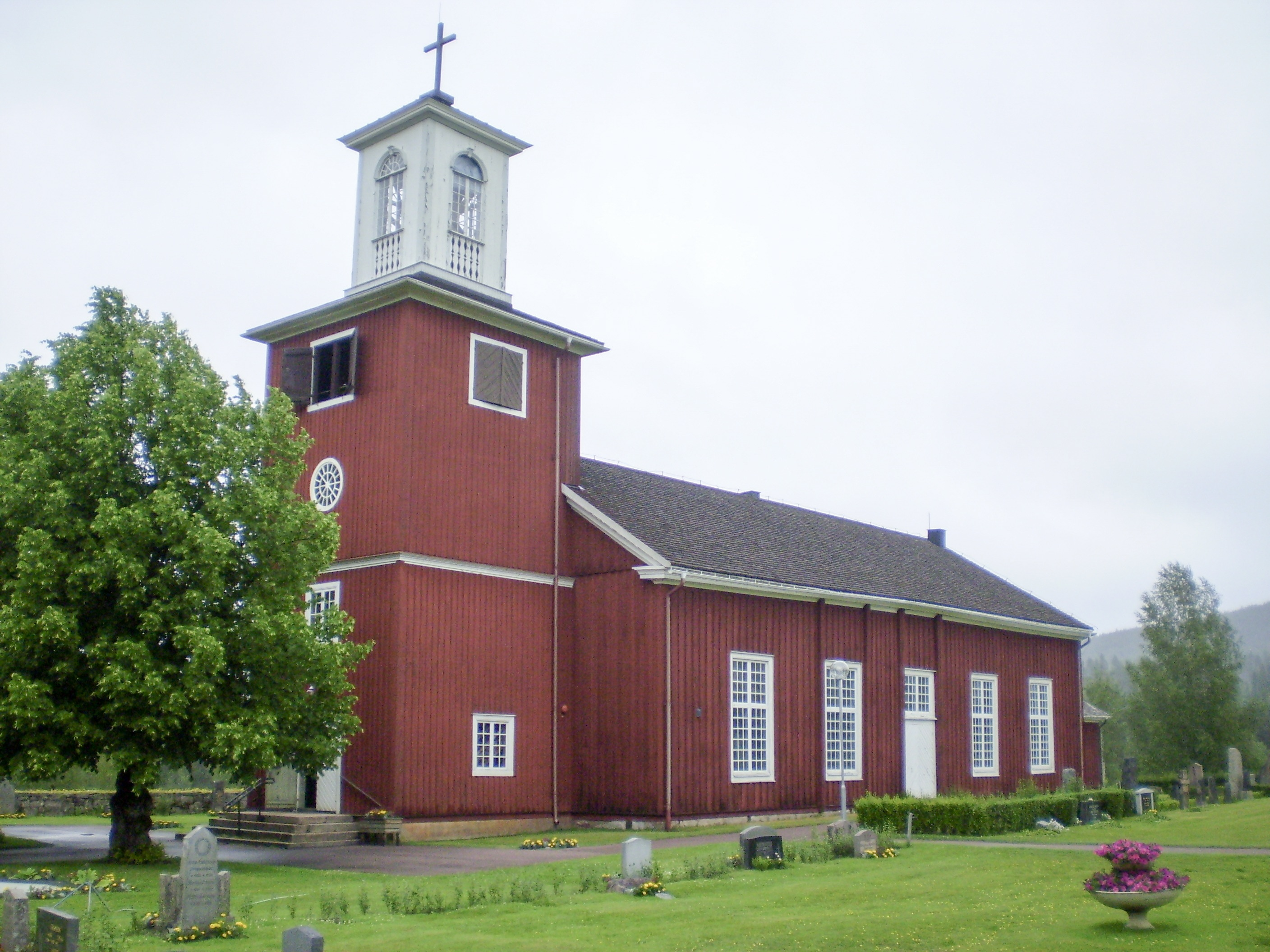 Church of Lekvattnet,Värmland,Sweden